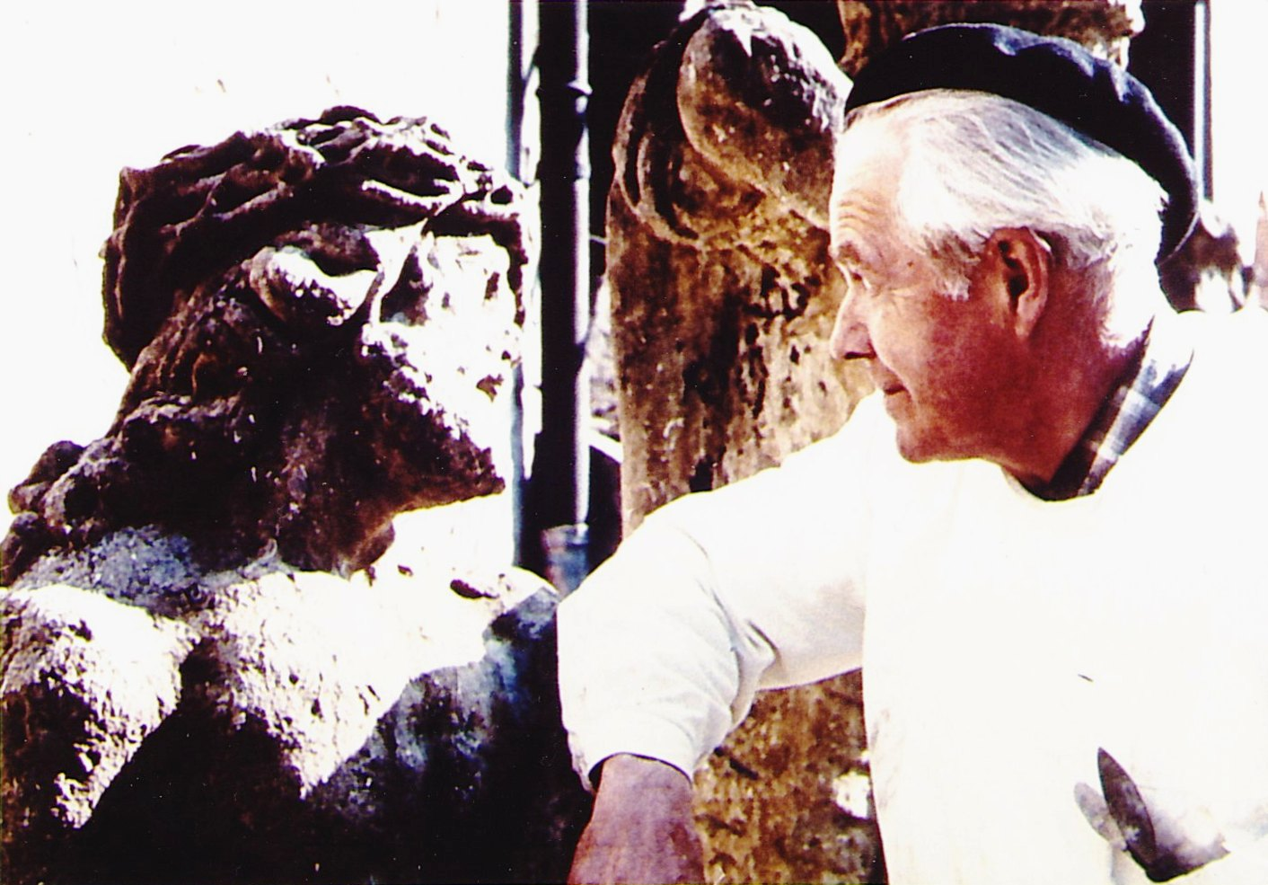 Sculptor Otto Zirnbauer (1903-1970) during the restauration of the Way of the Cross at Geiersberg (Deggendorf, Bavaria), 1968